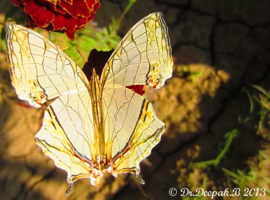 A common Map butterfly resting on a marigold flower in Butterfly Garden, Sector 26, Chandigarh, India